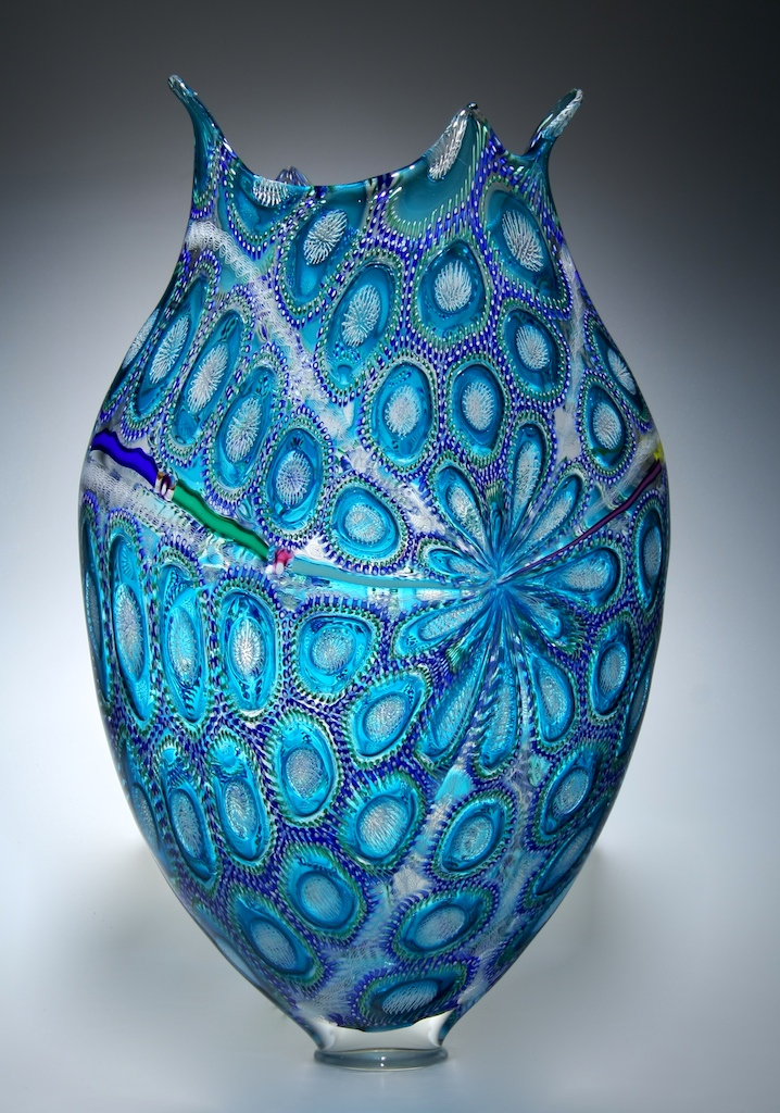 Example of blown glass utilizing murrine technique. 19" x 12" x 4.5". Created by David Patchen